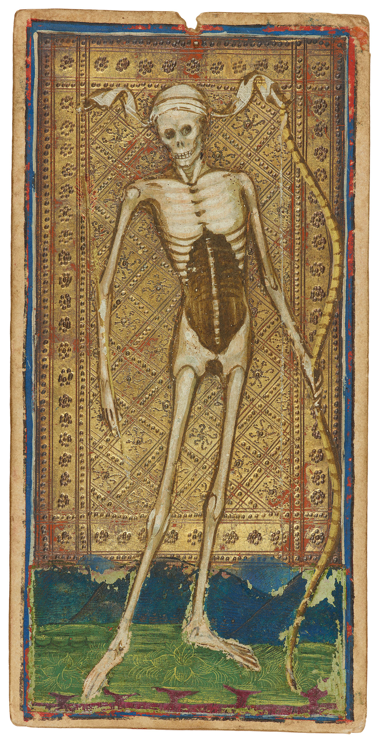 The death card from the Pierpont Morgan Bergamo tarot deck. Note that this is a photograph of the original card, not a reproduction.